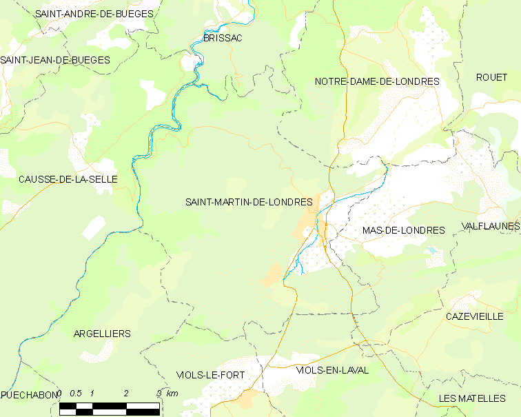 Map commune FR insee code 34274.png - Saint-Martin-de-Londres